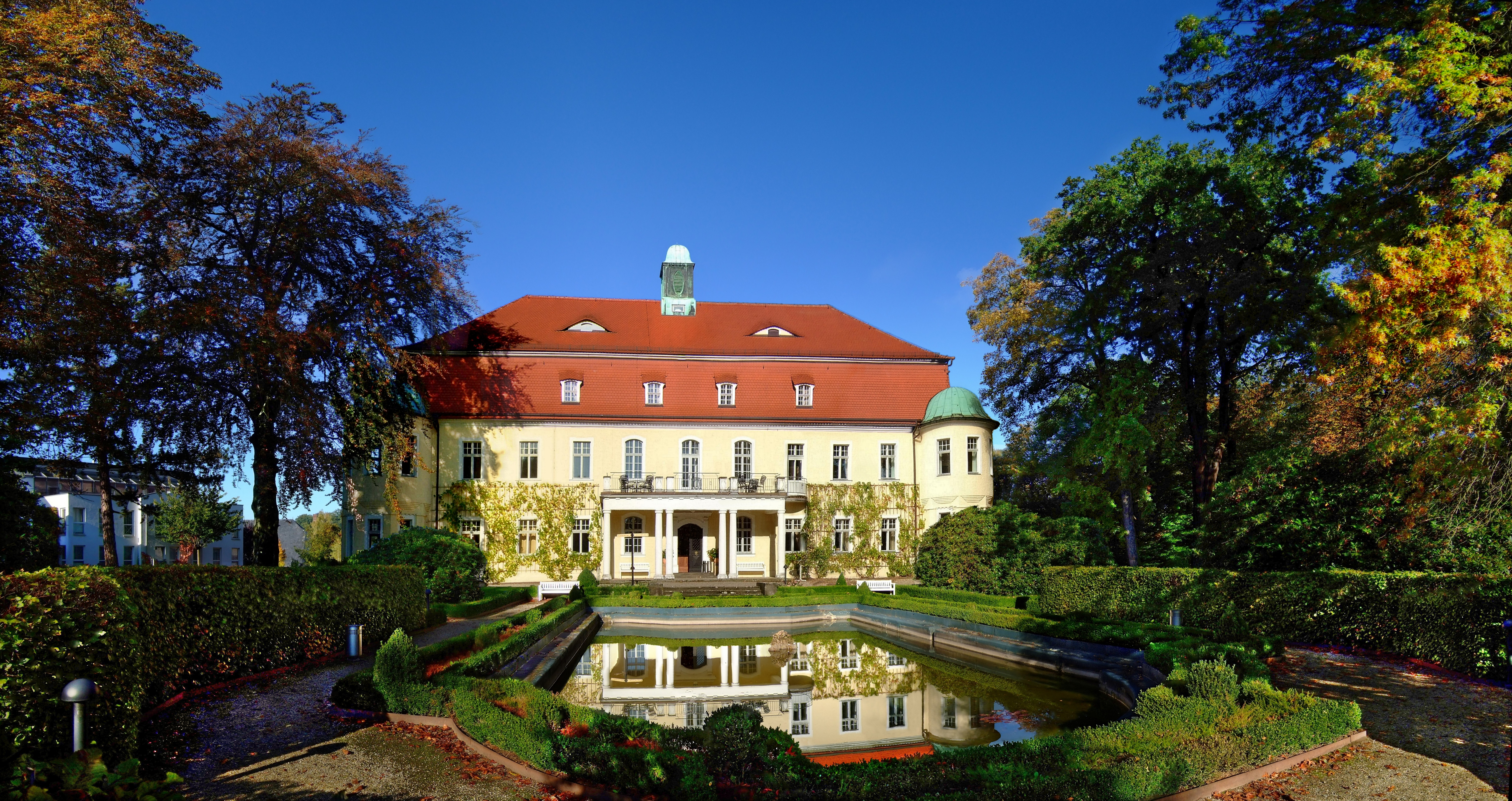 Schweinsburg castle in in Neukirchen/Pleiße in Saxony